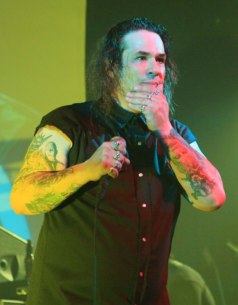 Steve "Zetro" Souza on stage with Dublin Death Patrol